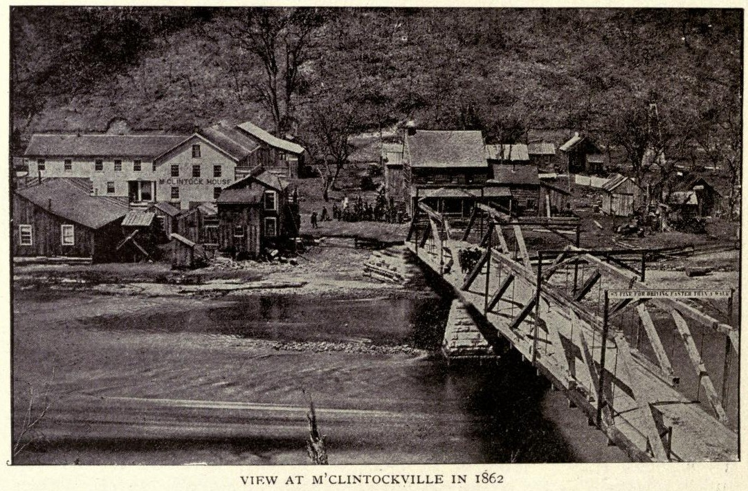 Illustration from the book Sketches in crude-oil; some accidents and incidents of the petroleum development in all parts of the globe, ... 3rd Edition. by McLaurin